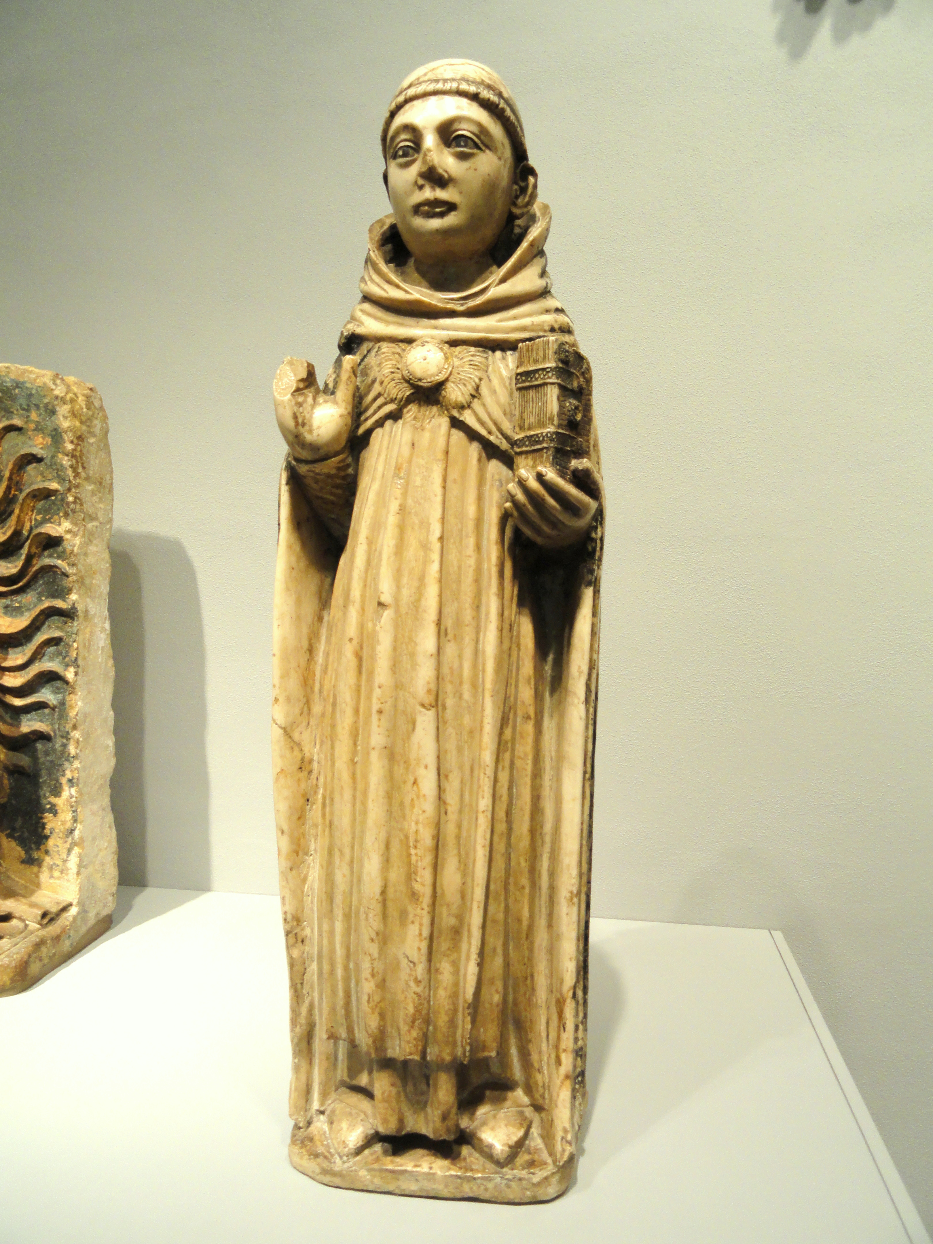 Exhibit in the Nelson-Atkins Museum of Art, Kansas City, Missouri, USA. ; I took this photograph and release it into the public domain.